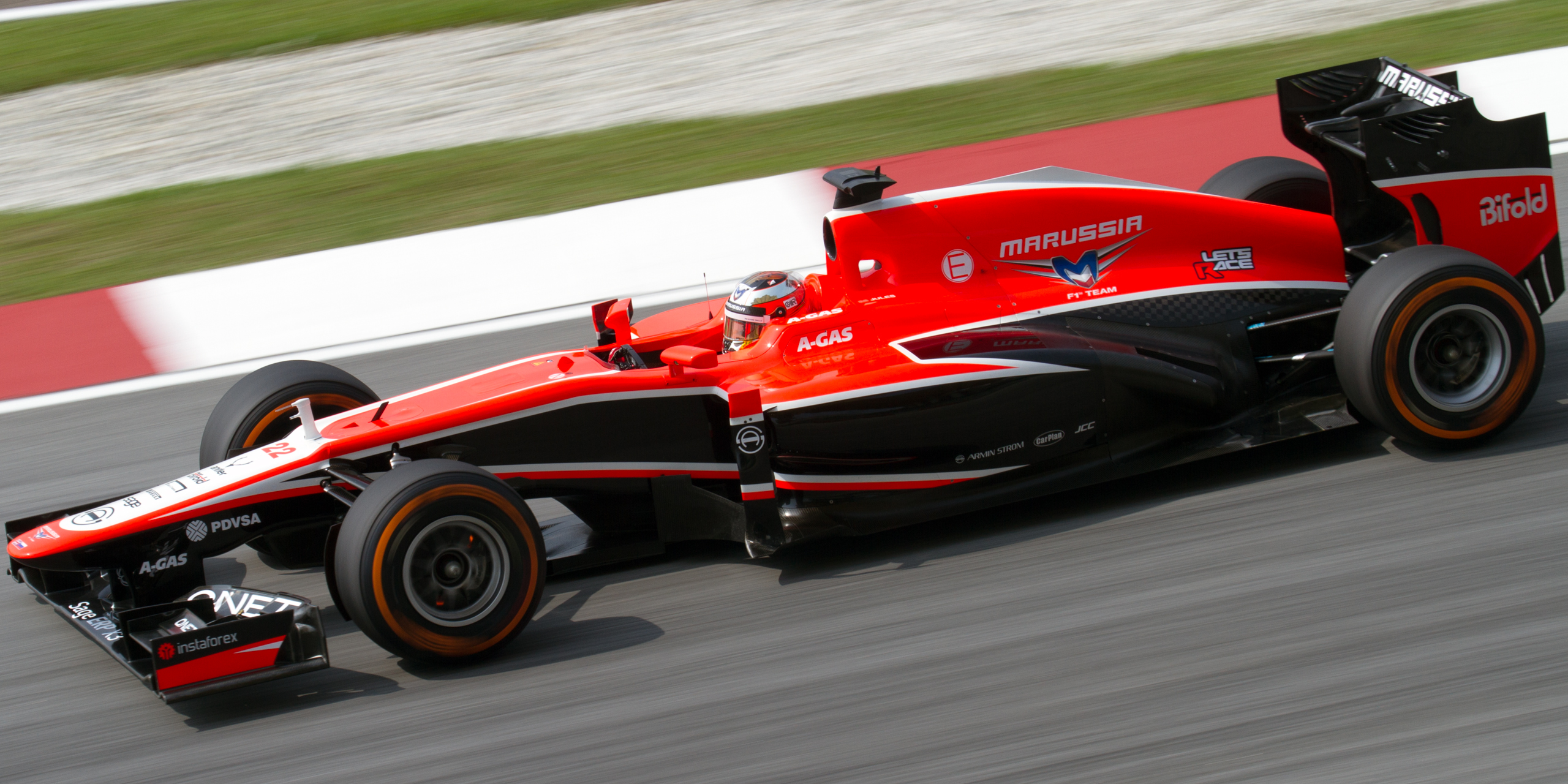 Formula One 2013 Rd.2 Malaysian GP: Jules Bianchi (Marussia) during the first practice session on Friday.